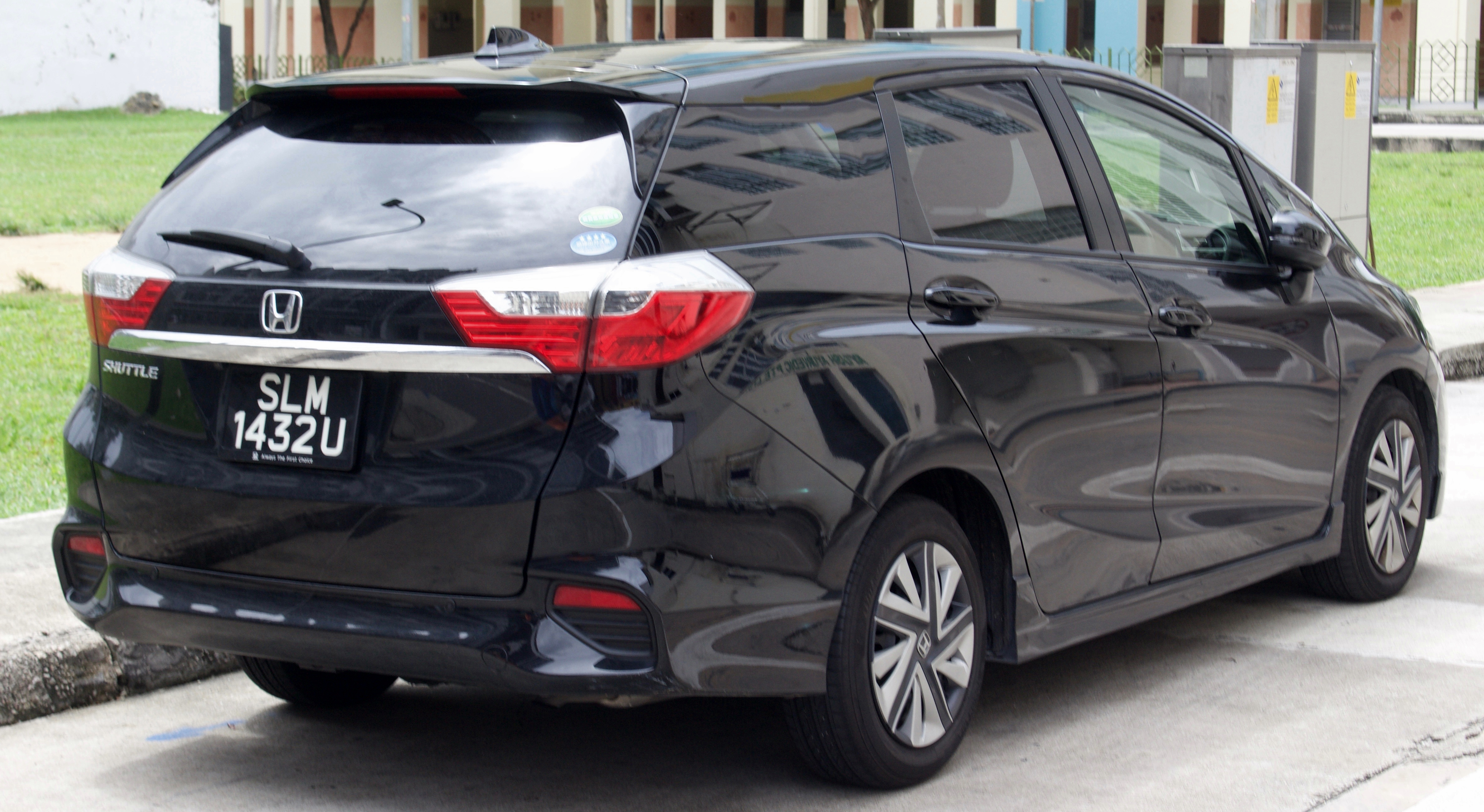 2016 Honda Shuttle (GP7) 1.5G station wagon. Photographed in Singapore.